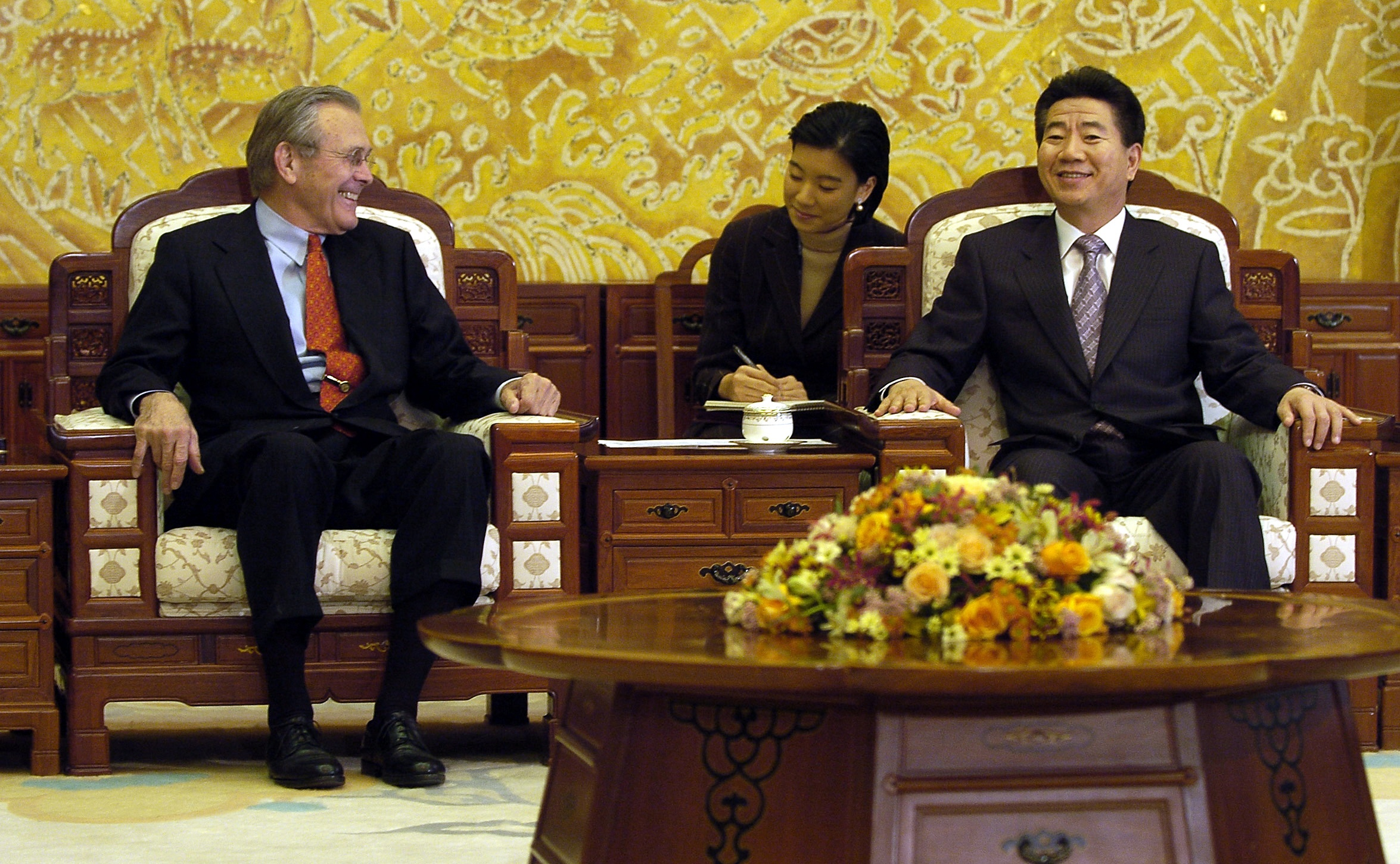 Secretary of Defense Donald H. Rumsfeld shares a lighter moment with South Korean President Roh Moo-hyun at the Blue House in Seoul, South Korea, on Nov. 17, 2003. Rumsfeld is traveling to Guam, Japan and South Korea to meet with U.S. military forces and the local military and civilian leadership. DoD photo Tech. Sgt. Andy Dunaway, U.S. Air Force. (Released) 031117-F-2828D-451